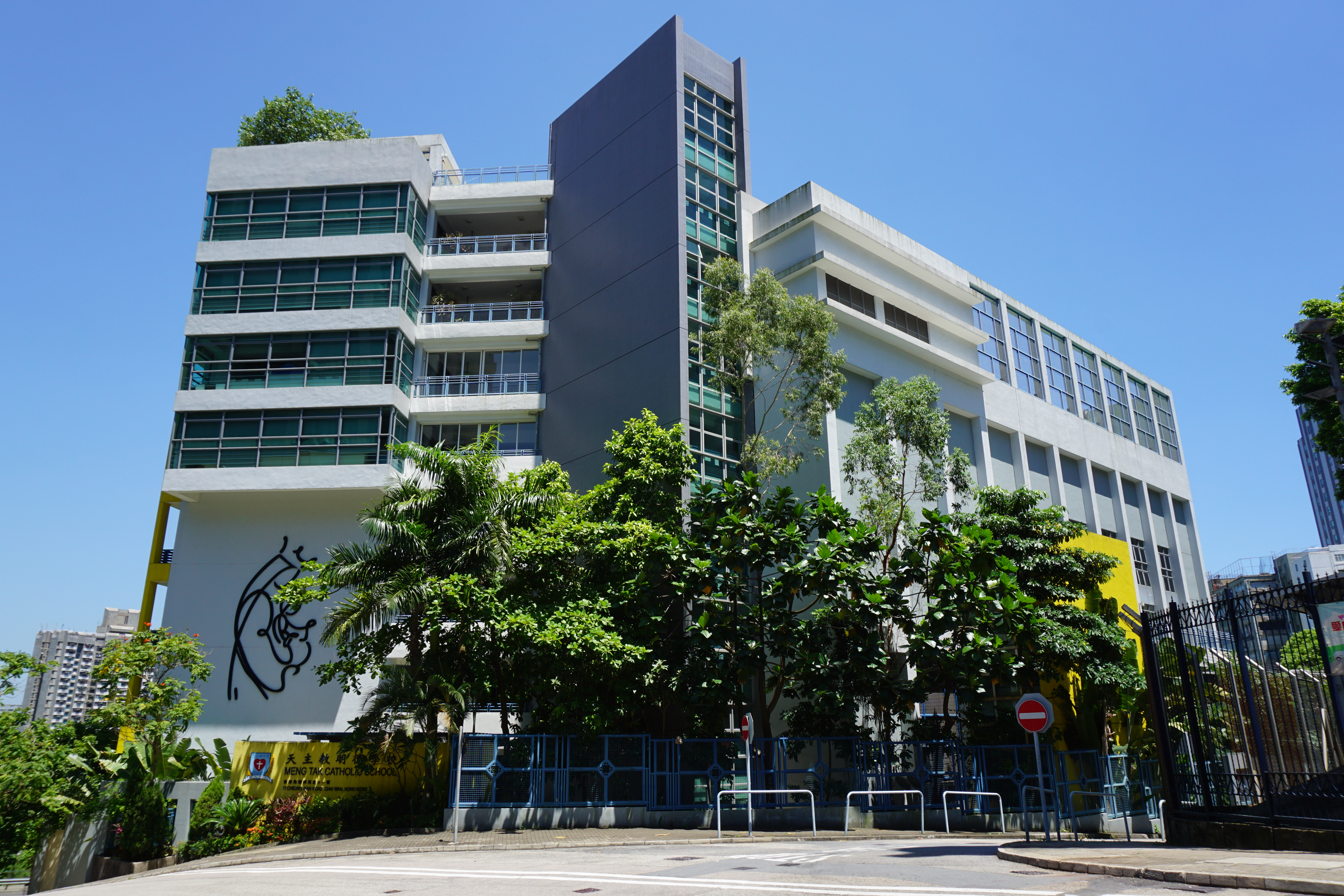 Meng Tak Catholic School in Chai Wan, Hong Kong.